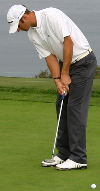 Dustin Johnson practicing putting during a practice round at Torrey Pines before the 2008 US Open.